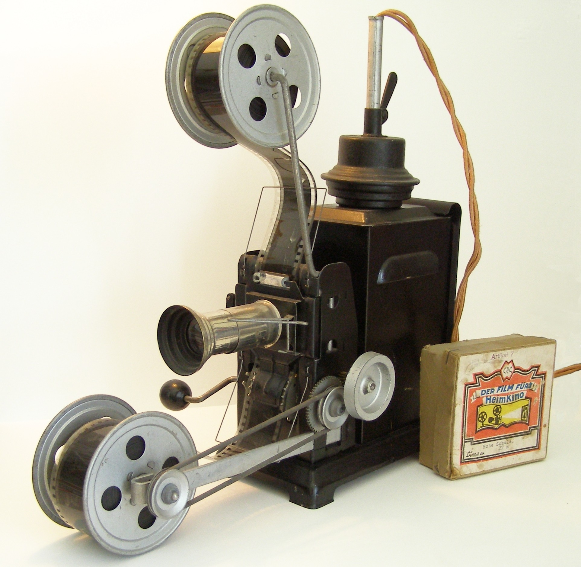 A manual film projector with a storical mini-film and his box.